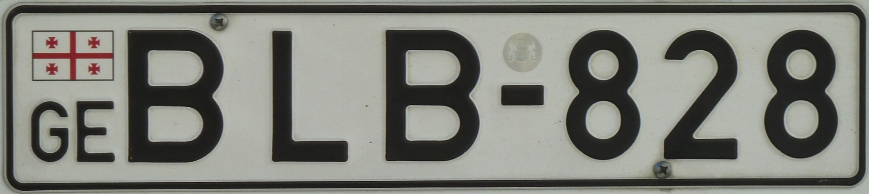 License plate from the Republic of Georgia